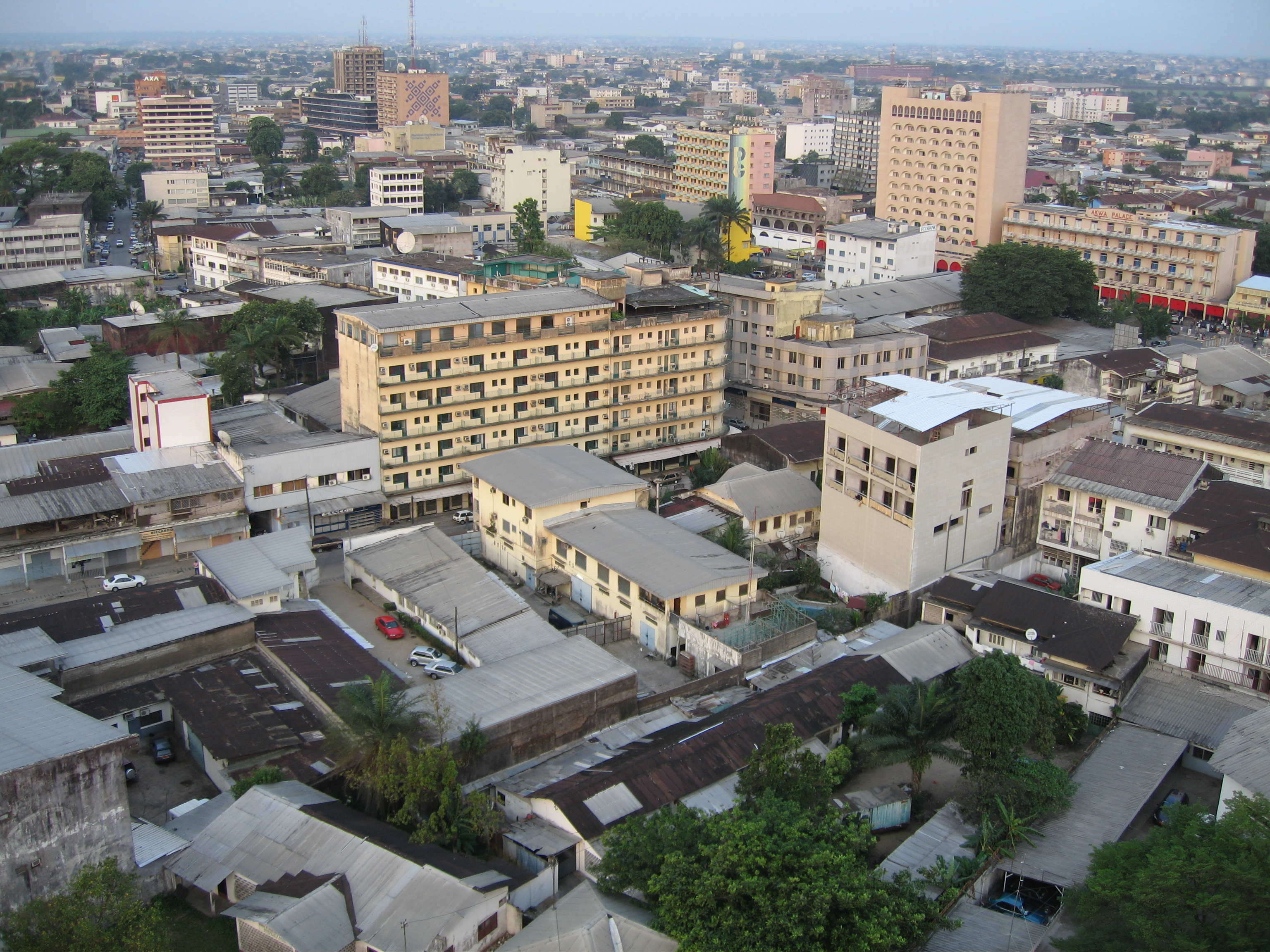 Ars&Urbis International Workshop, organized by doual'art in collaboration with iStrike Foundation, Douala, 2007. Research documentation by Emiliano Gandolfi.